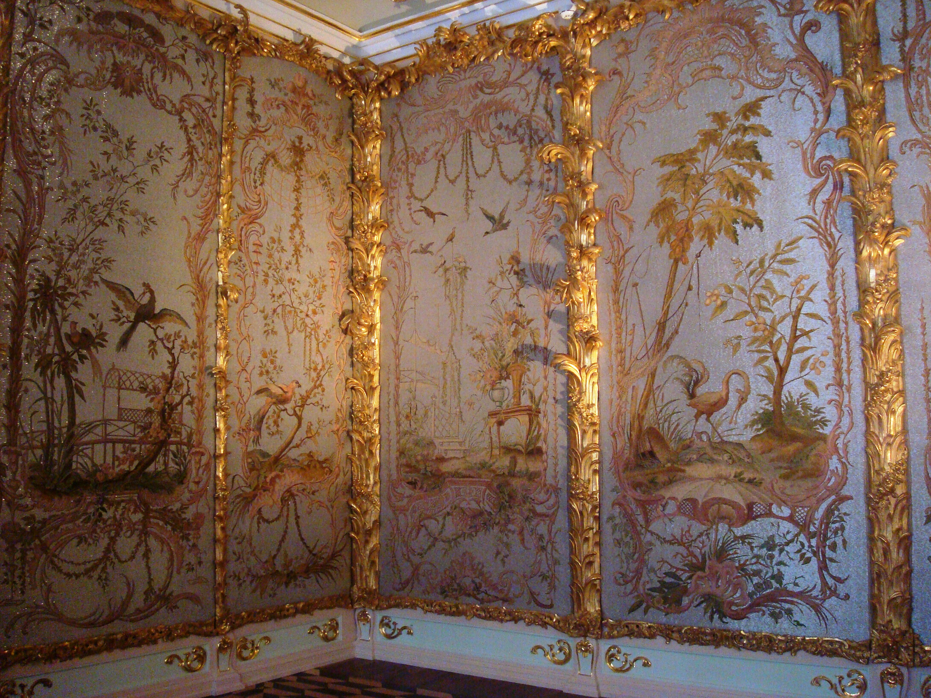 The Buglework study in the Chinese palace in Oranienbaum, Russia